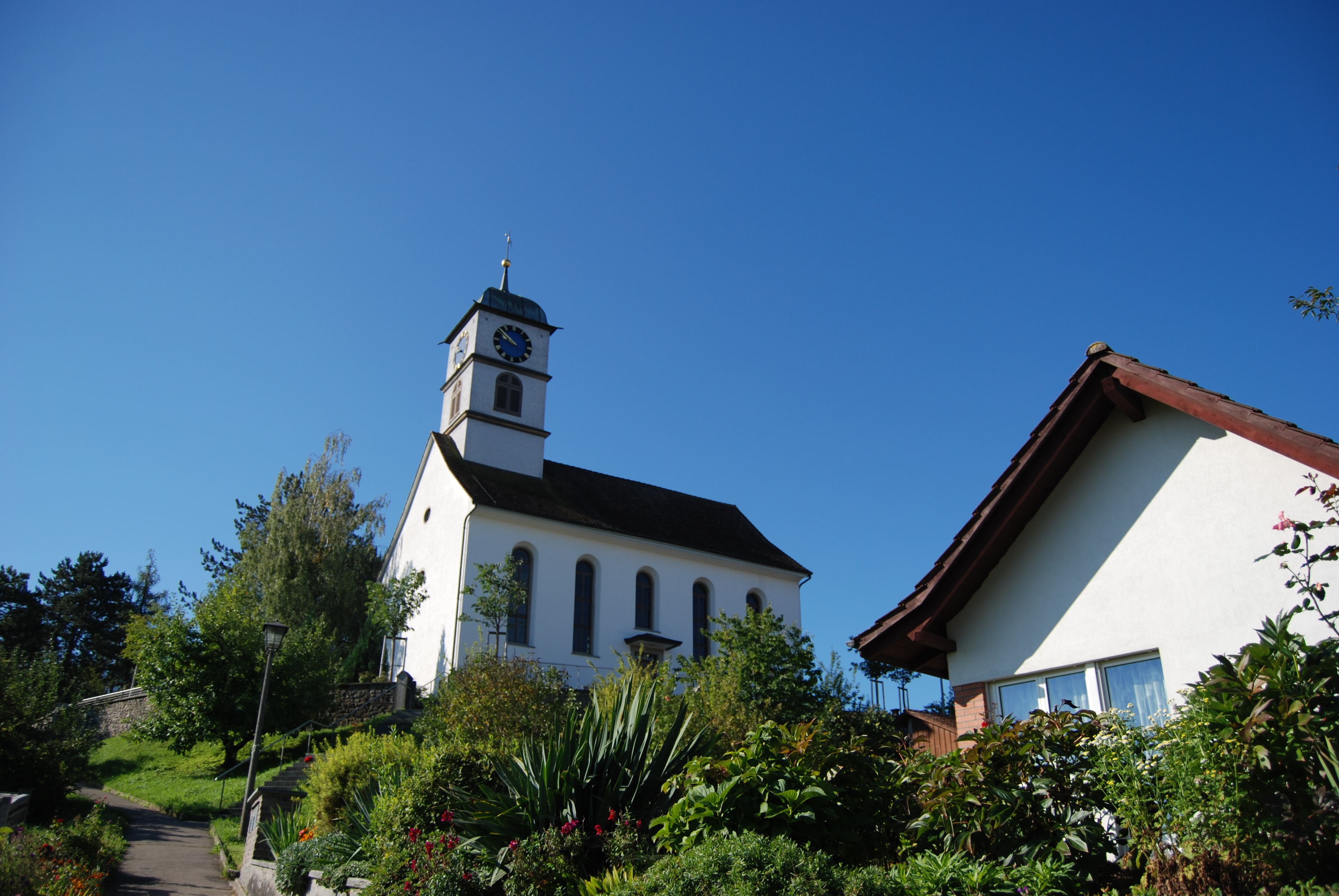 Church of Henggart, canton of Zürich, SwitzerlandEsperanto: Preĝejo de Henggart, Kantono Zürich, Svislando